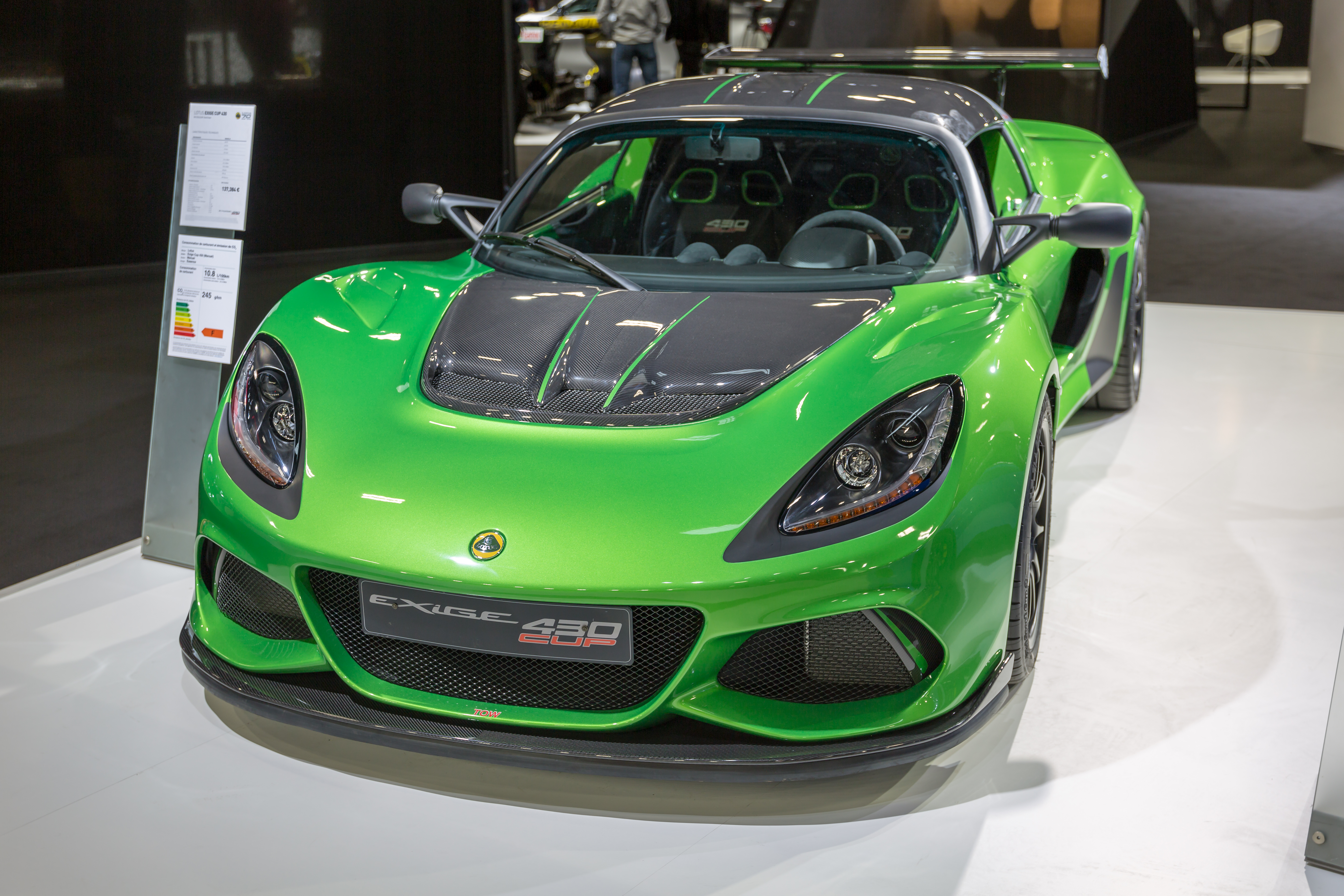 Lotus Exige Cup, Mondial Paris Motor Show 2018